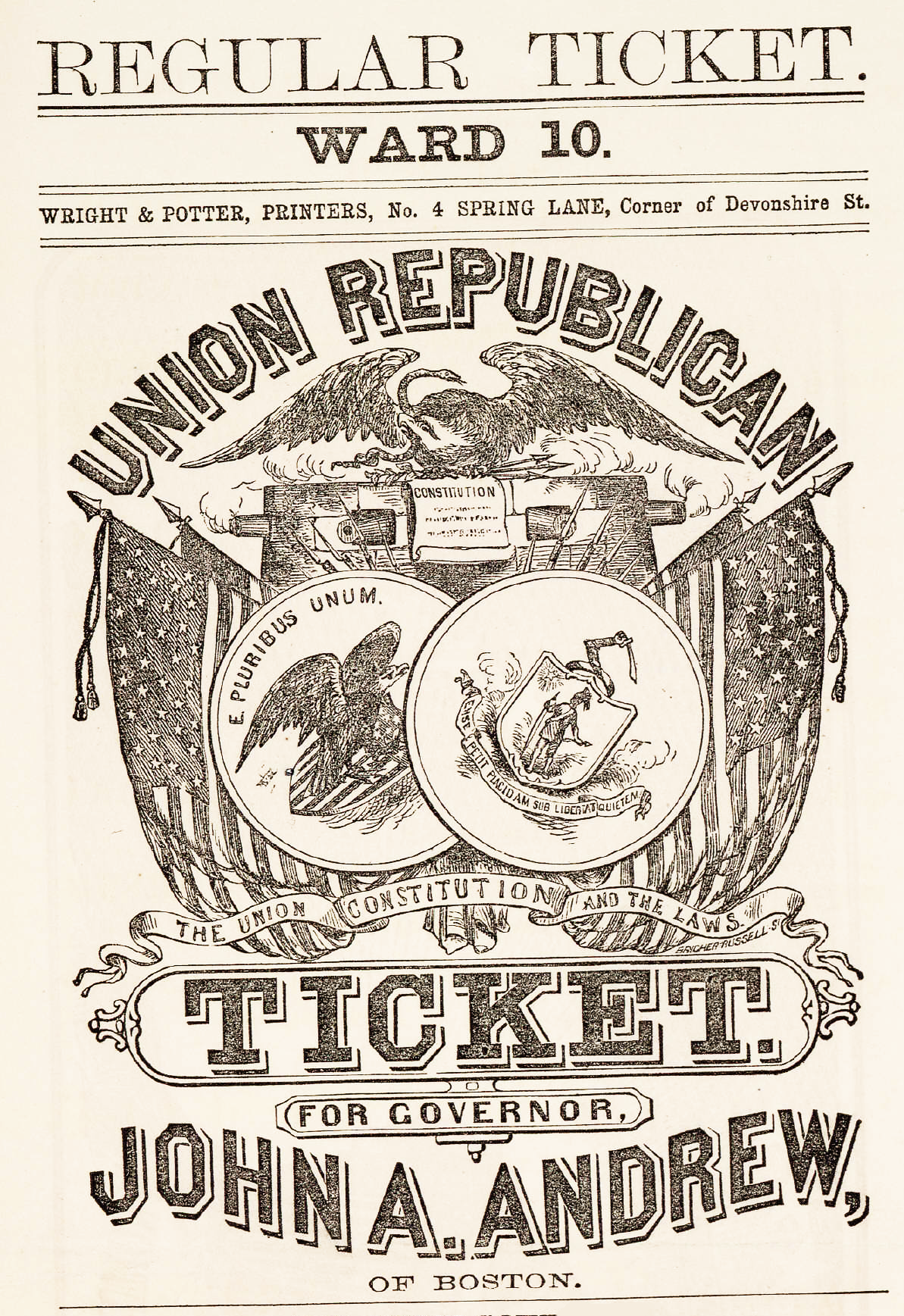 A selection of the top part of a poster ("election ticket") promoting the Republican Party ticket in the Massachusetts 1862 election. The election was won by this ticket.